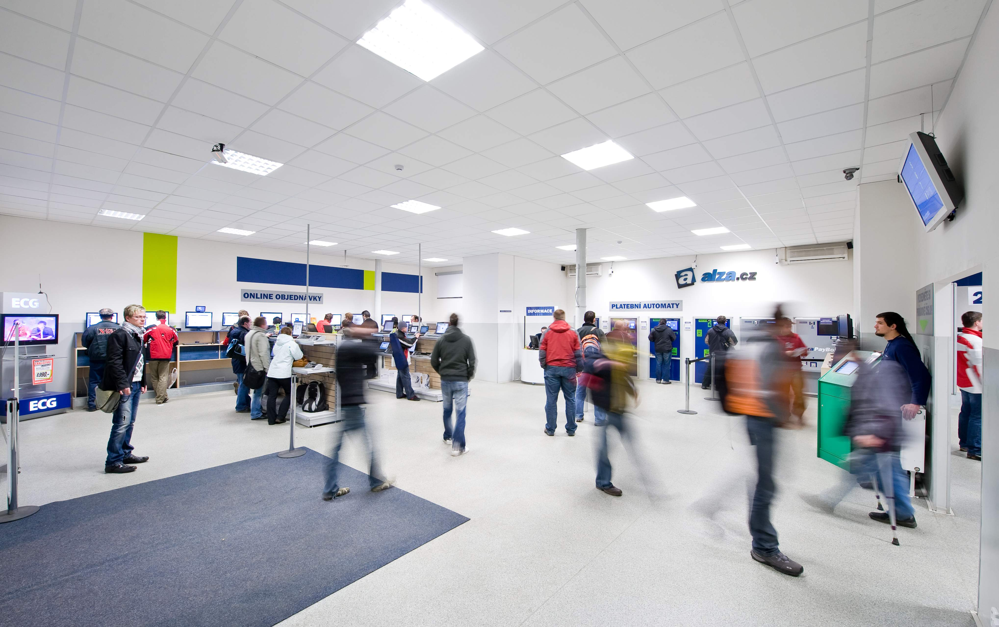 showroom Alza